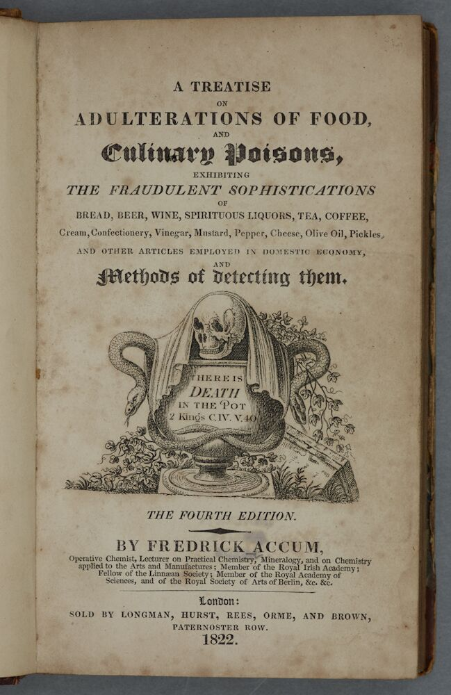 Title page with a warning quotation from the Bible and an illustration of a snake and skull to reinforce the author’s message